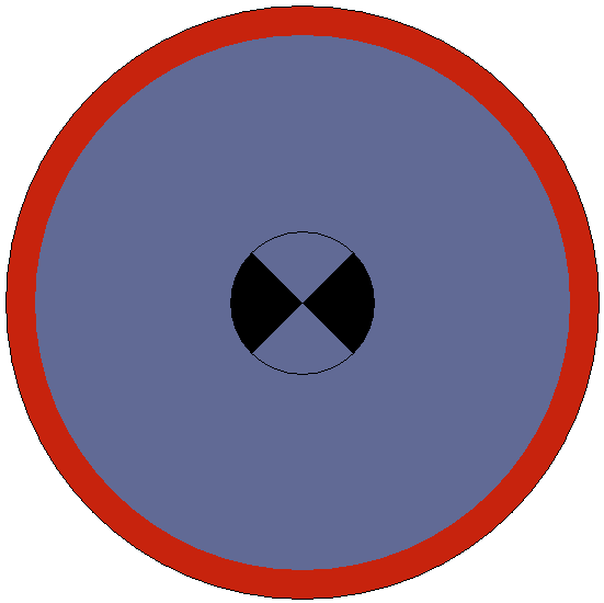 Shield pattern of Secunda Flavia Constantiniana in the early 5th century